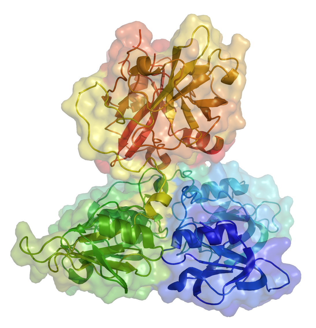 3d ribbon/surface model of factor XI (PTA) from pdb 2f83. Ref.: E.Papagrigoriou et al. (2006). Crystal structure of the factor XI zymogen reveals a pathway for transactivation.. Nat Struct Mol Biol, 13, 557-558. PMID 16699514 [